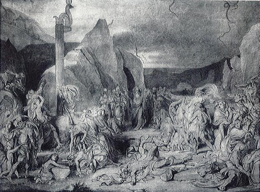 Study for "Brazen Serpent" (Fyodor Bruni, before spring of 1836)